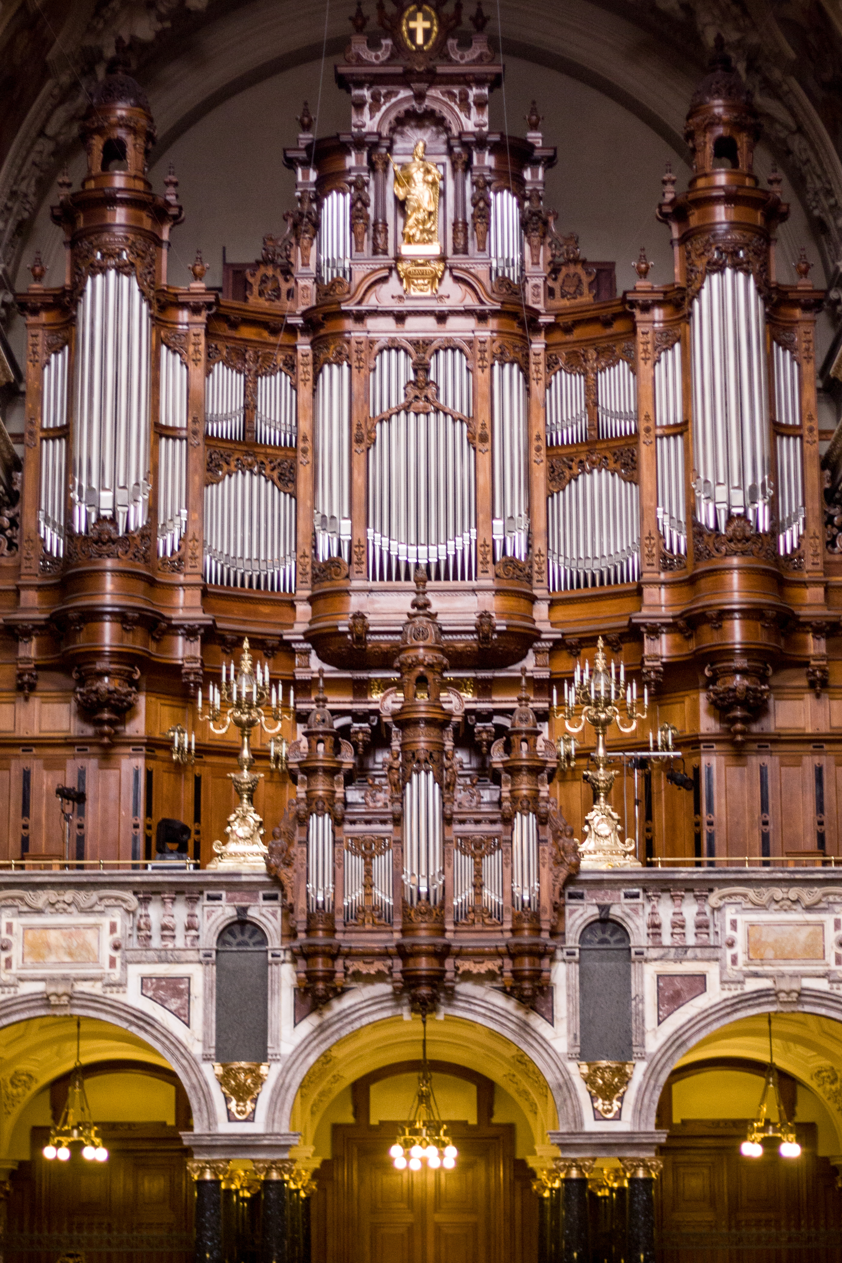 This is a photograph of an architectural monument.